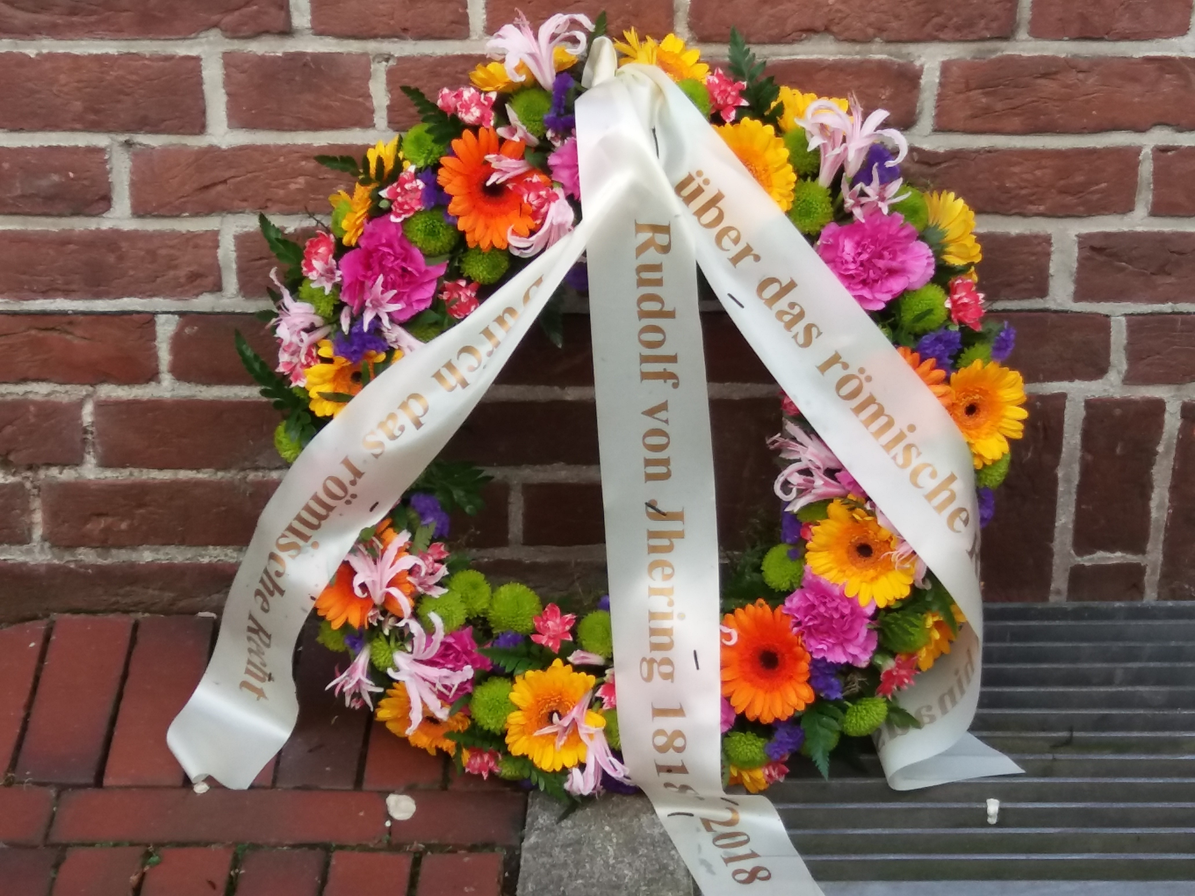 Flowers to commemorate Rudolf von Jhering 1818-2018, presented by various scholars of Roman Law.